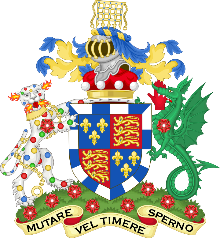 coat of arms of the Barons Raglan Arms. 1st and 4th, azure, three fleurs-de-lis, argent [alias or], France; 2nd and 3rd. gules, three lions passant-guardant, in pale, or, England; the whole within a bordure compony, argent and azure. Crest. A portcullis, or, nailed, azure, with chains pendent therefrom, gold. Supporters. Dexter, a panther, argent, spotted of various colours, fire issuant from the mouth and ears, proper, gorged with a plain collar, and chained, or; Sinister, a wyvem, wings endorsed, vert, holding in the mouth a sinister hand, couped at the wrist, gules. Debrett's peerage